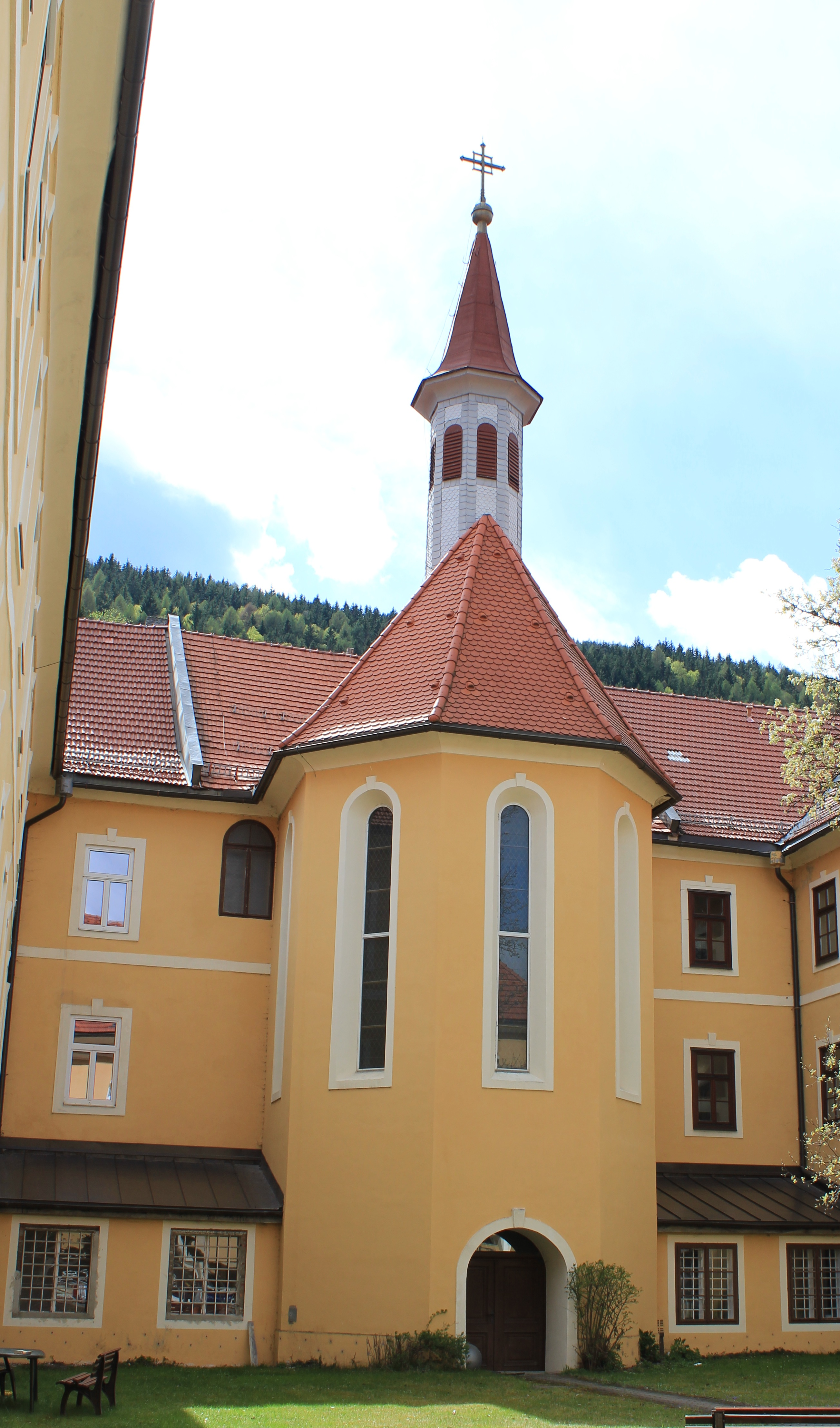 Chapell of the Hemmahaus in Friesach